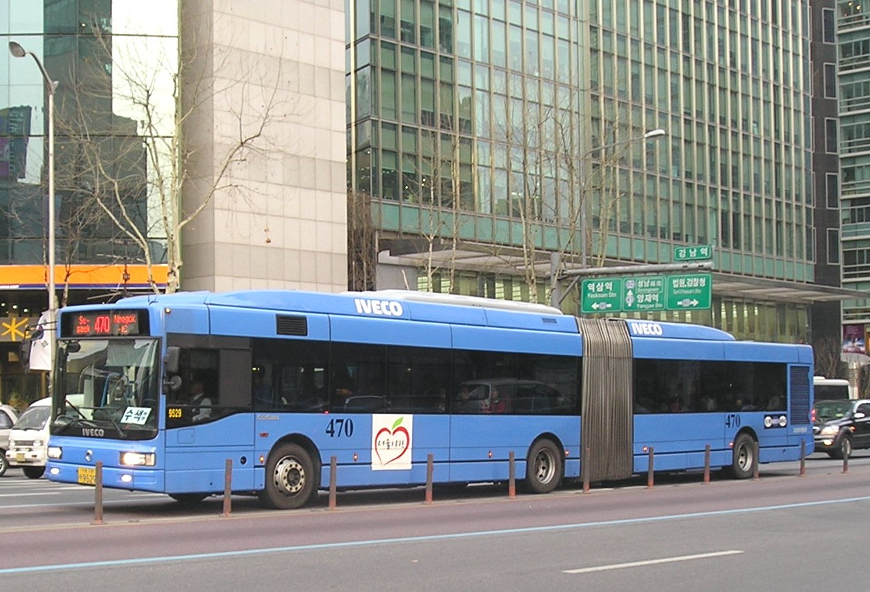 Seoul Buses's Iveco CityClass (18M) articulated in service on route 470. Taken on 27 March 2006.